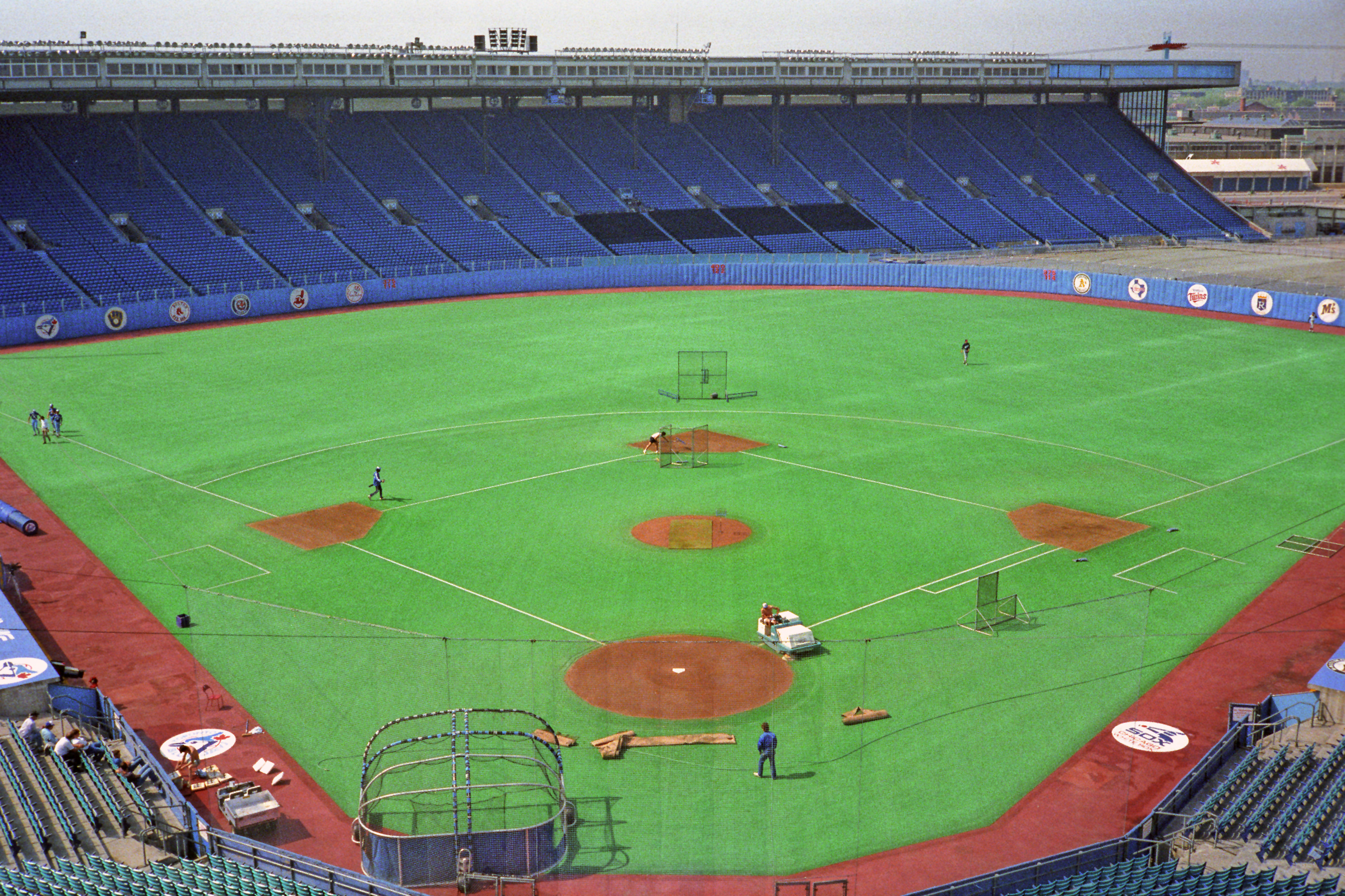 Taken before the Chicago White Sox faced the Toronto Blue Jays @ Exhibition Stadium in Toronto on May 27, 1988.